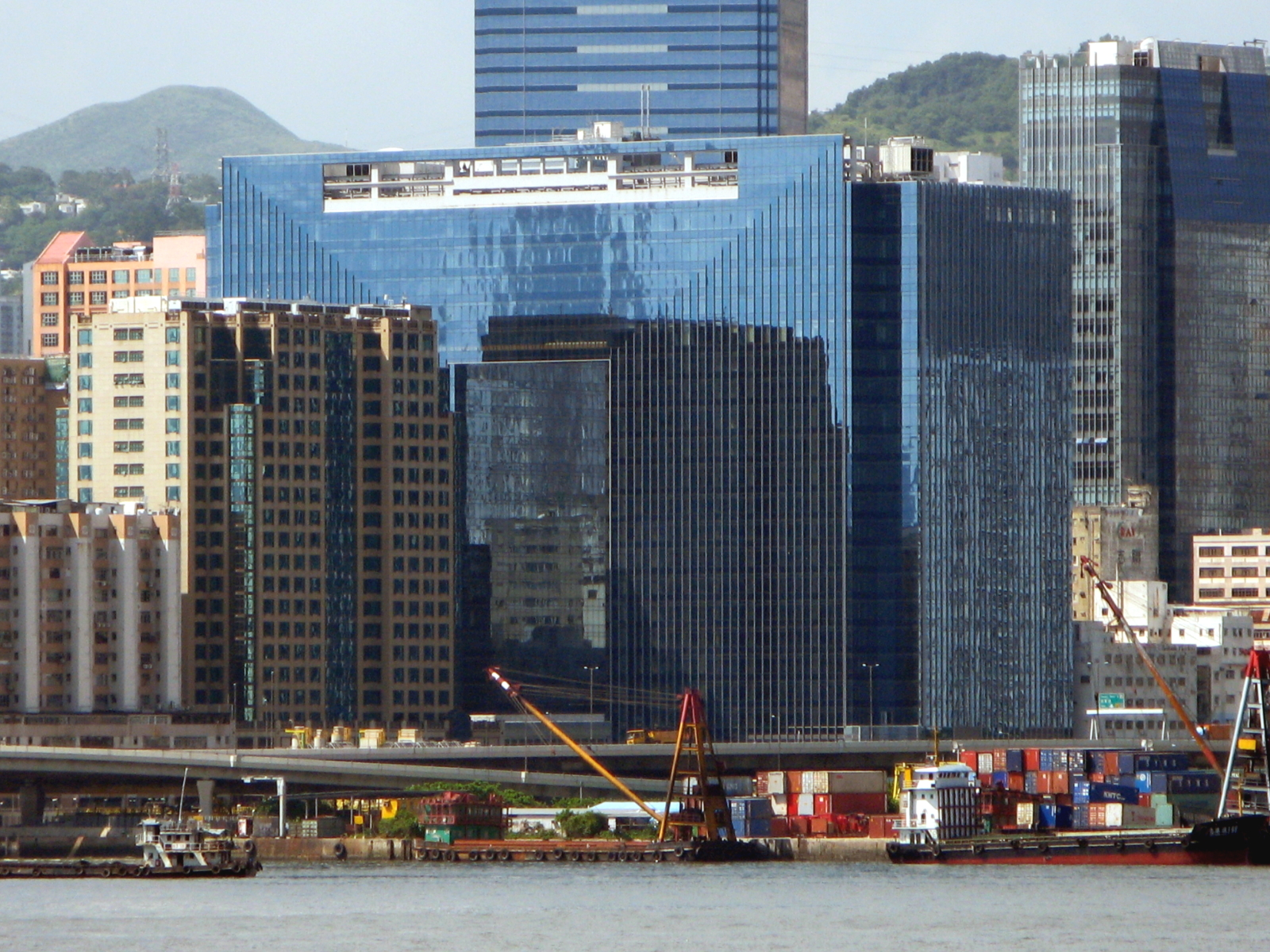 HK Kwun Tong 223 View From Island East 觀塘223